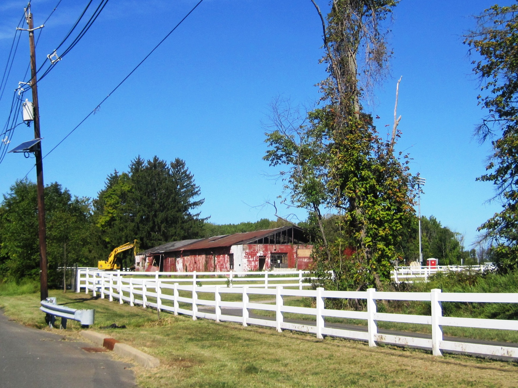 Photo showing the ongoing demolition of the last vestige of the Twin Pine Airport in Hopewell Township, Mercer County, New Jersey. Location is along Pennington-Lawrenceville Road (County Route 546).